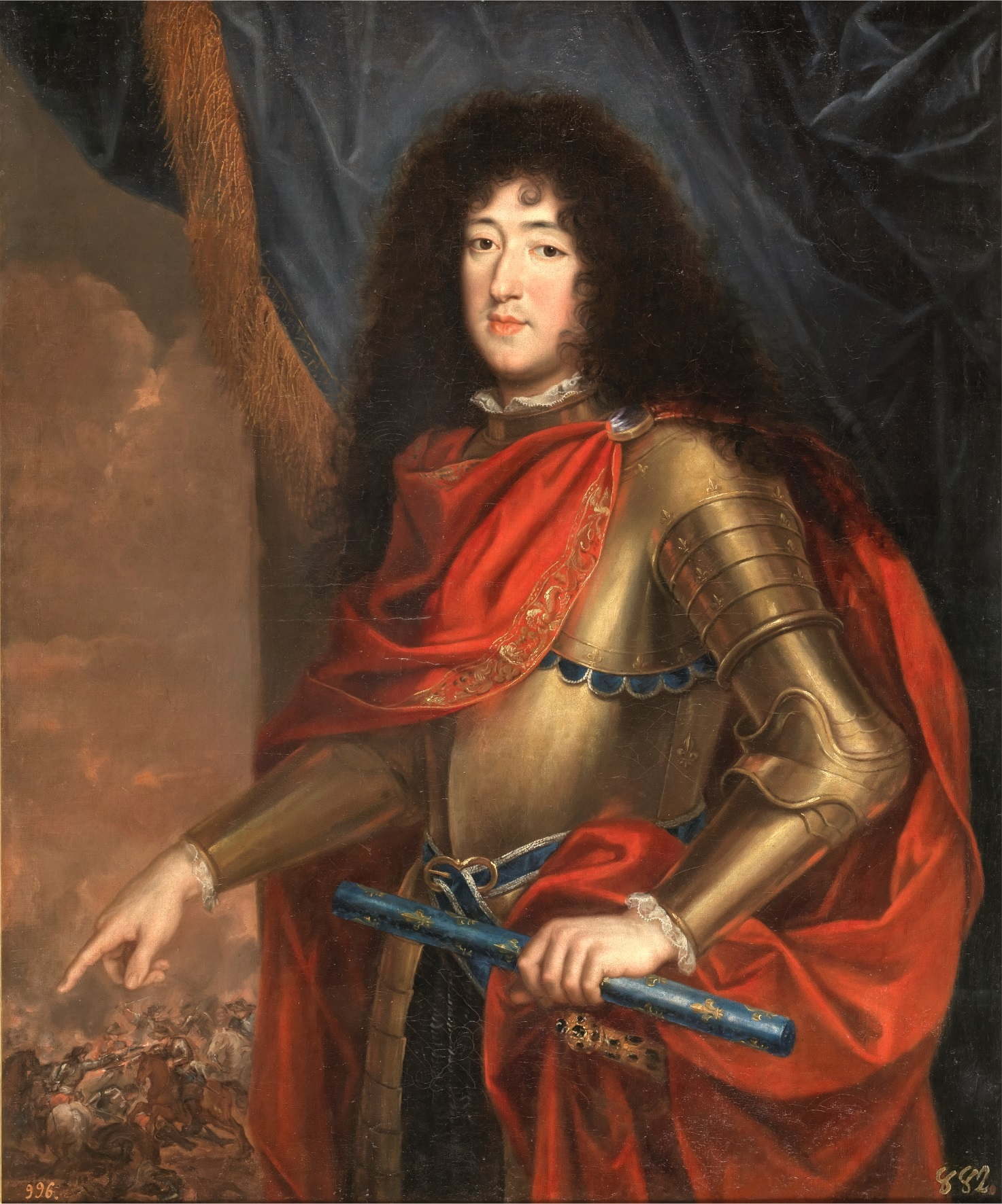 Philippe of France, Duke of Orléans (1640-1701)